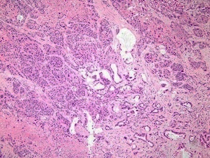 Histopathology of adenosquamous carcinoma of the pancreas. The tumor has components of both malignant glandular adenocarcinoma (right) and squamous carcinoma (left). Hematoxylin and eosin stain; 100x magnification.